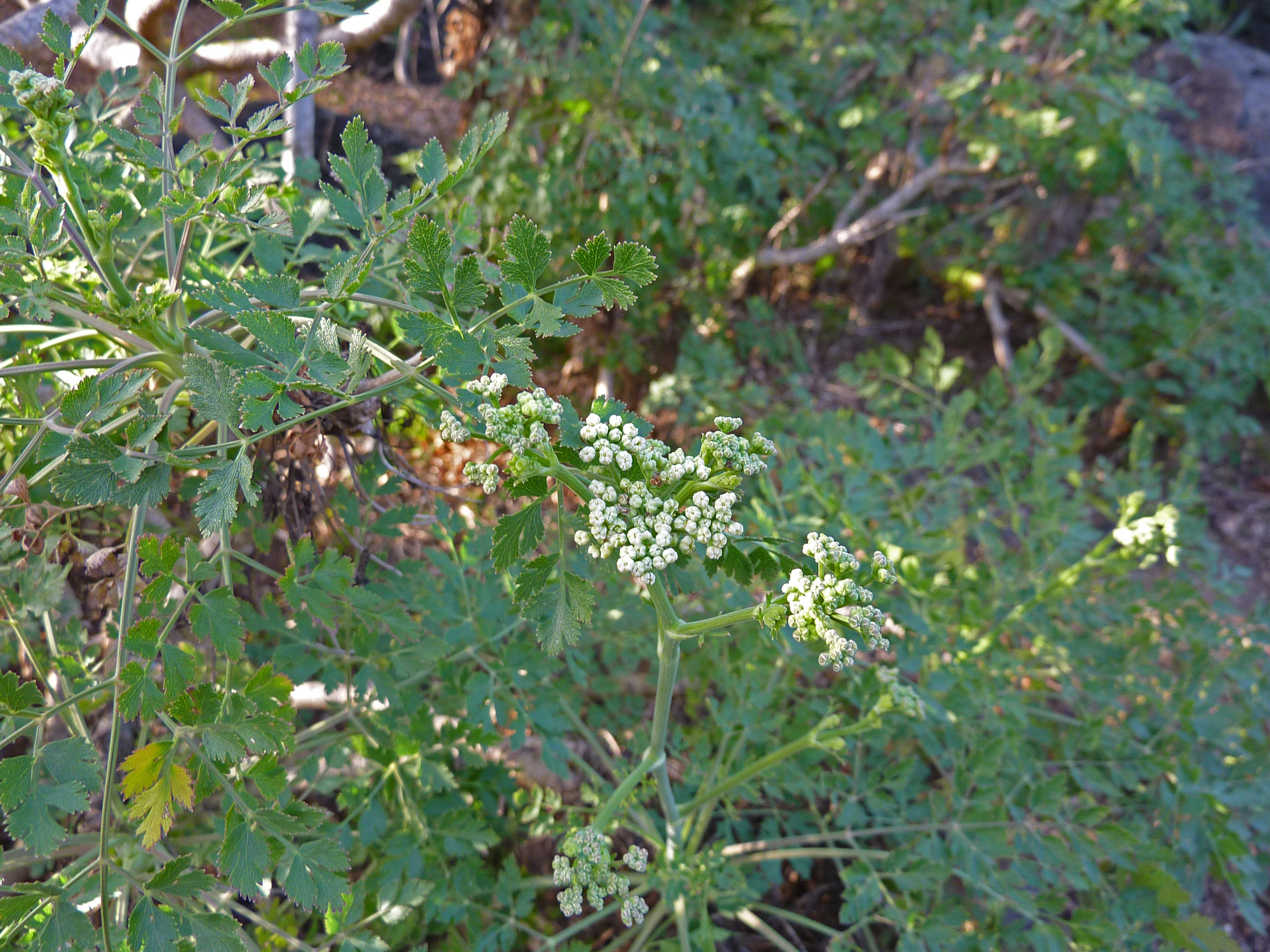 Pimpinella junoniae in the Jardín Botánico Canario Viera y Clavijo.